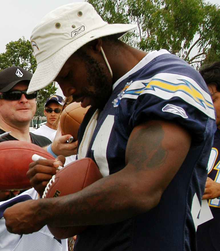 San Diego Charger Tim Dobbins signs autographs for service members and their families at Naval Base San Diego during a 45-minute no-pads practice.